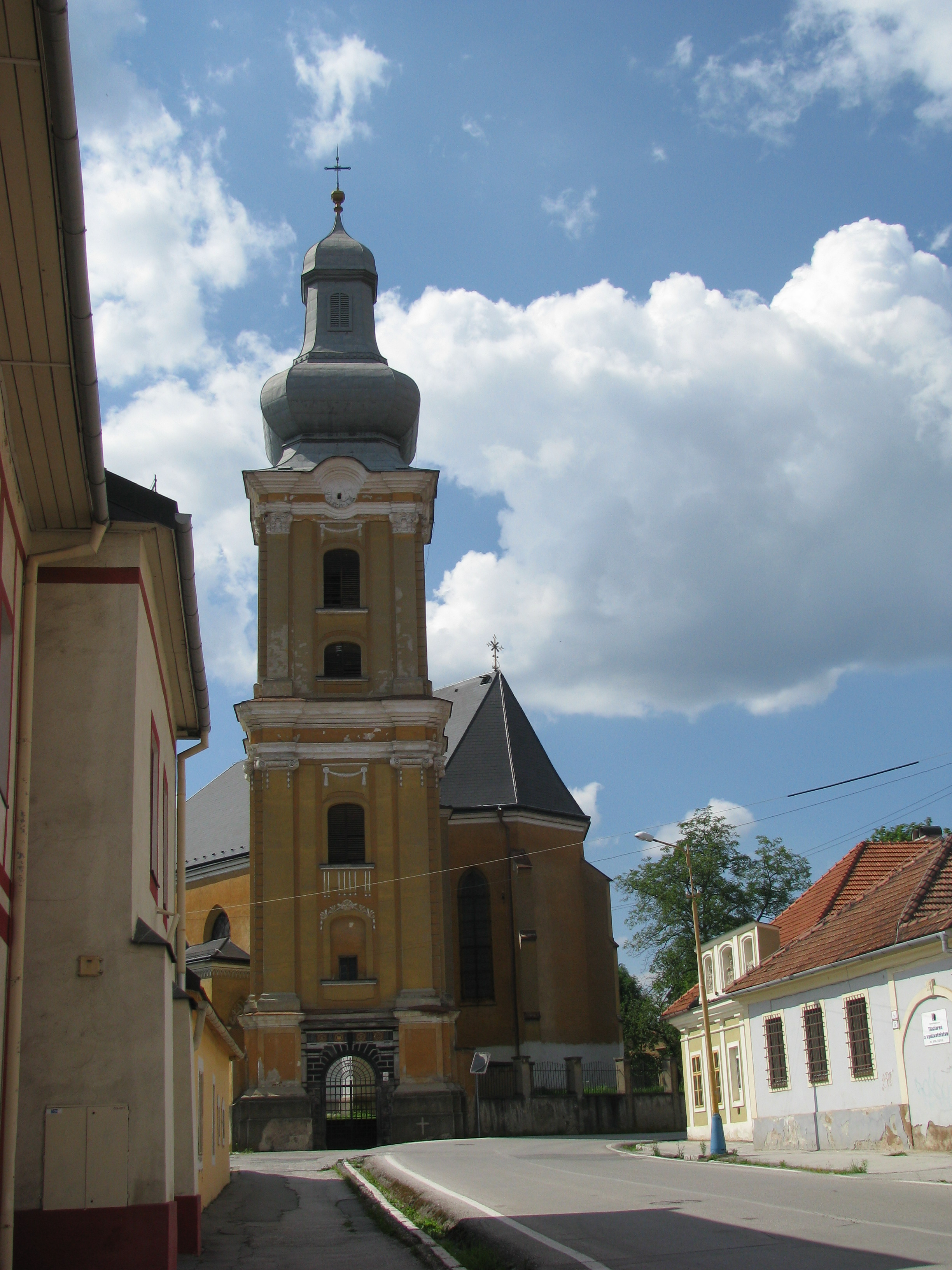 Church in Roznana, Slovakia